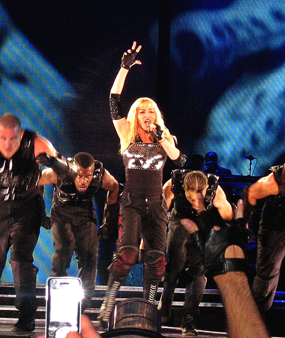 Picture taken at the concert